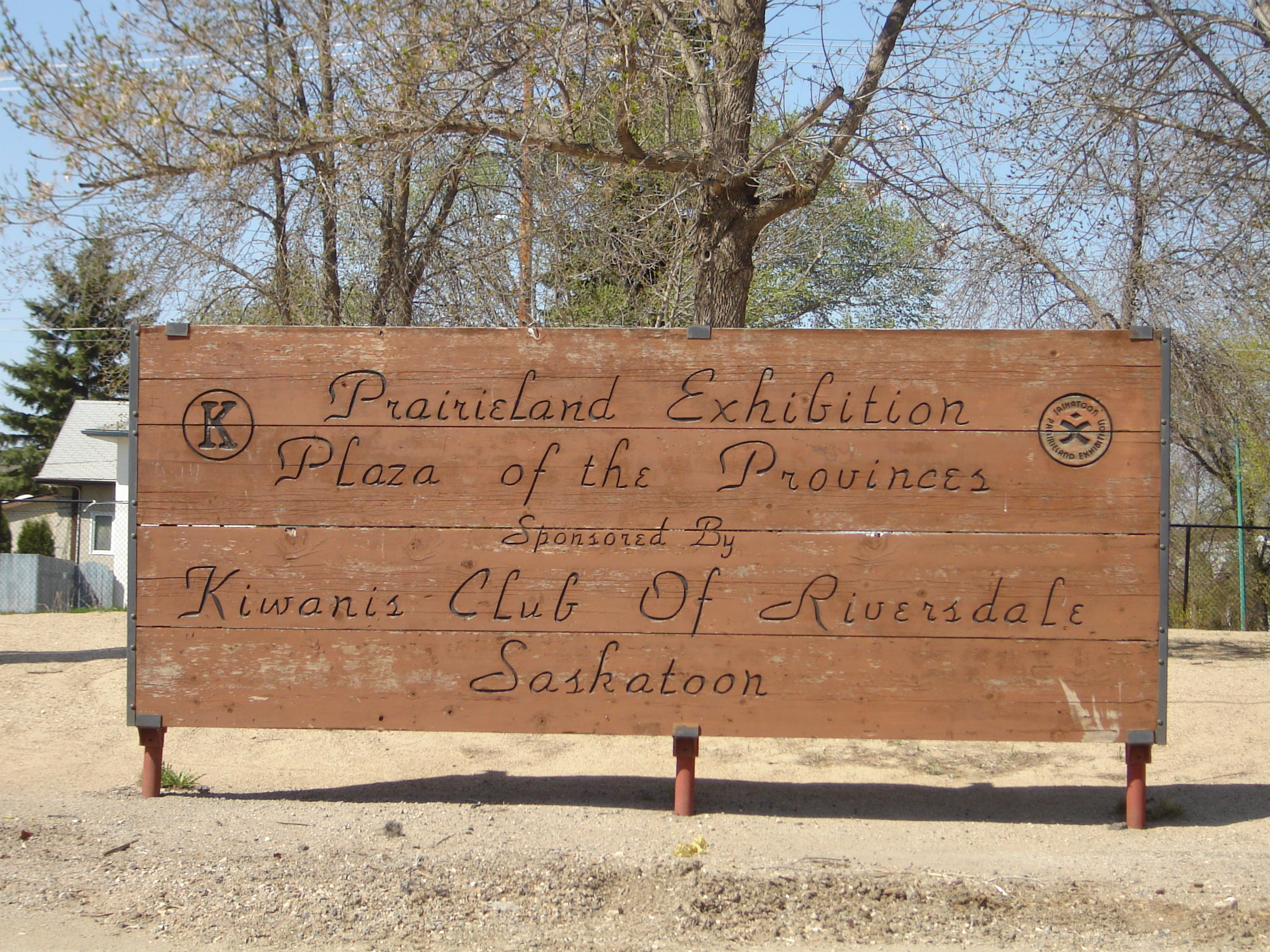 Prairieland Exhibition, Plaza of the Provinces, Exhibition, Saskatoon subdivision Saskatoon, Saskatchewan, Canada